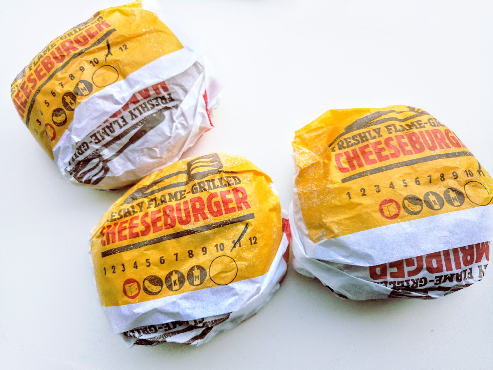 Burger King Cheeseburgers